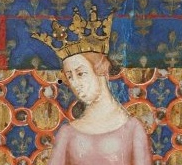 Sancha of Majorca